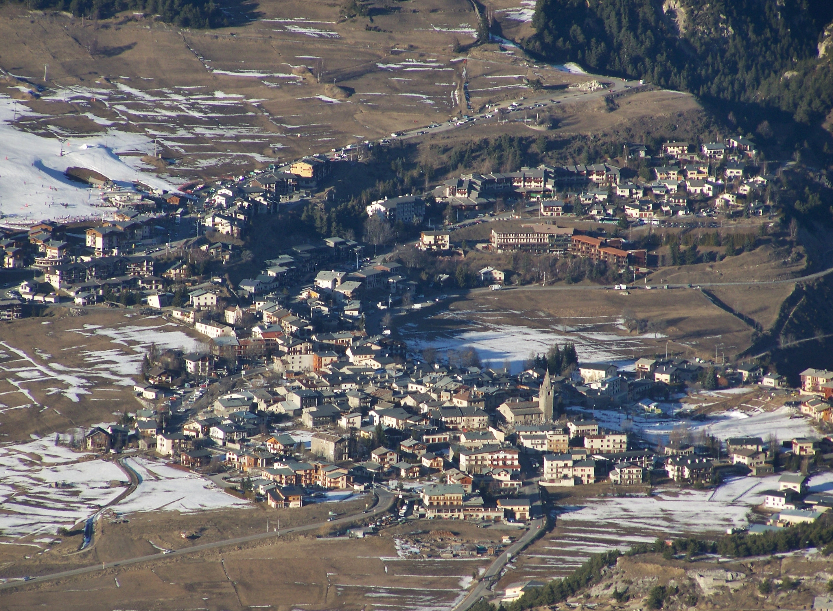 Sight of Aussois village and ski resort, from the other side of the Maurienne valley (La Norma ski resort) in Savoie, France.